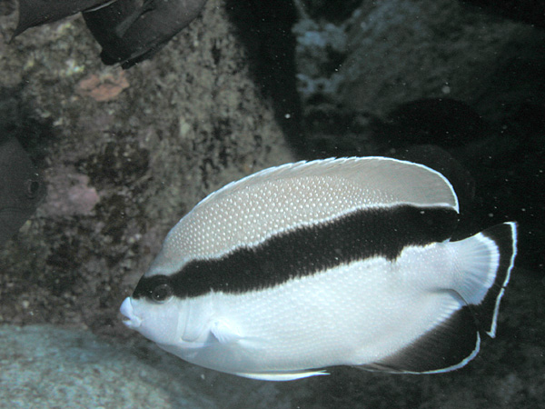 Bandit Angelfish, Kona, Hawaii. Image taken by Clark Anderson/Aquaimages. Category:Marine angelfish images